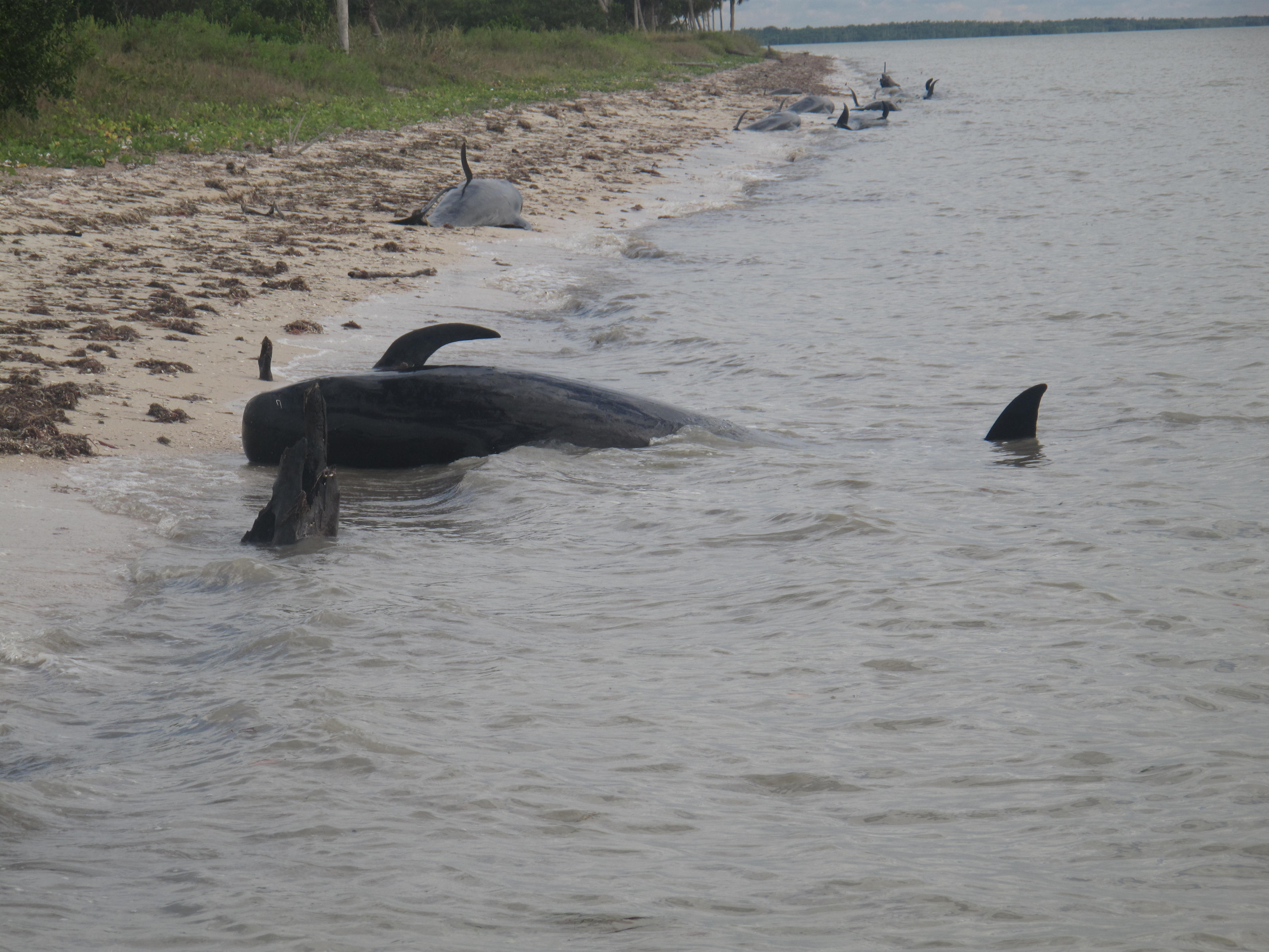 120413 a number of beached whales on highland beach